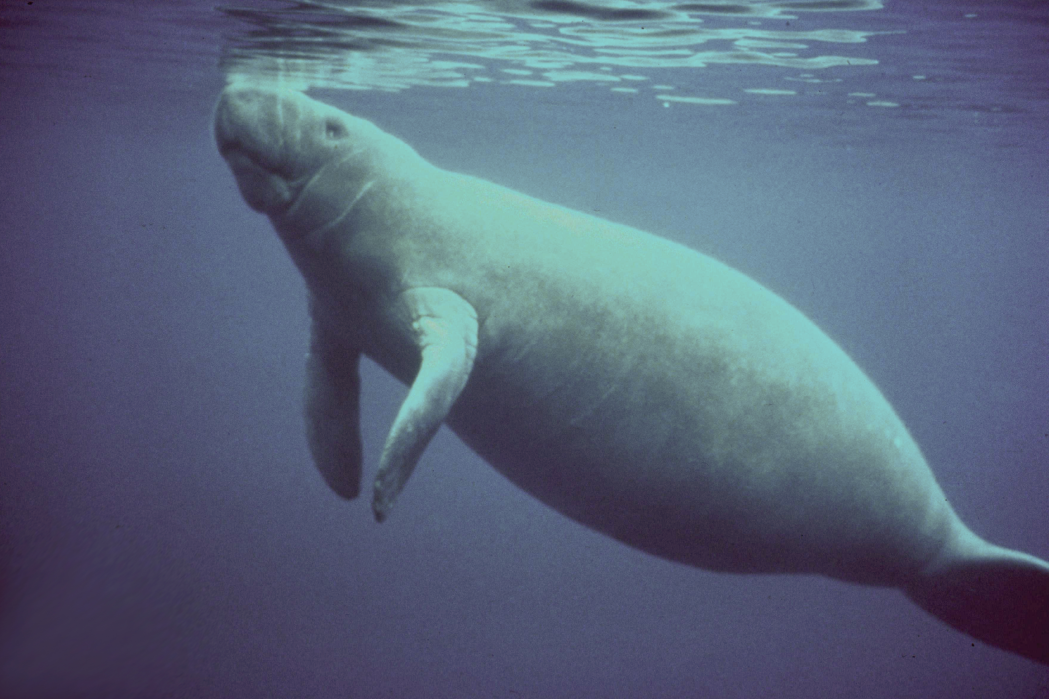 Image title: Marine mammal animal manatee surfacing to breathe Image from Public domain images website